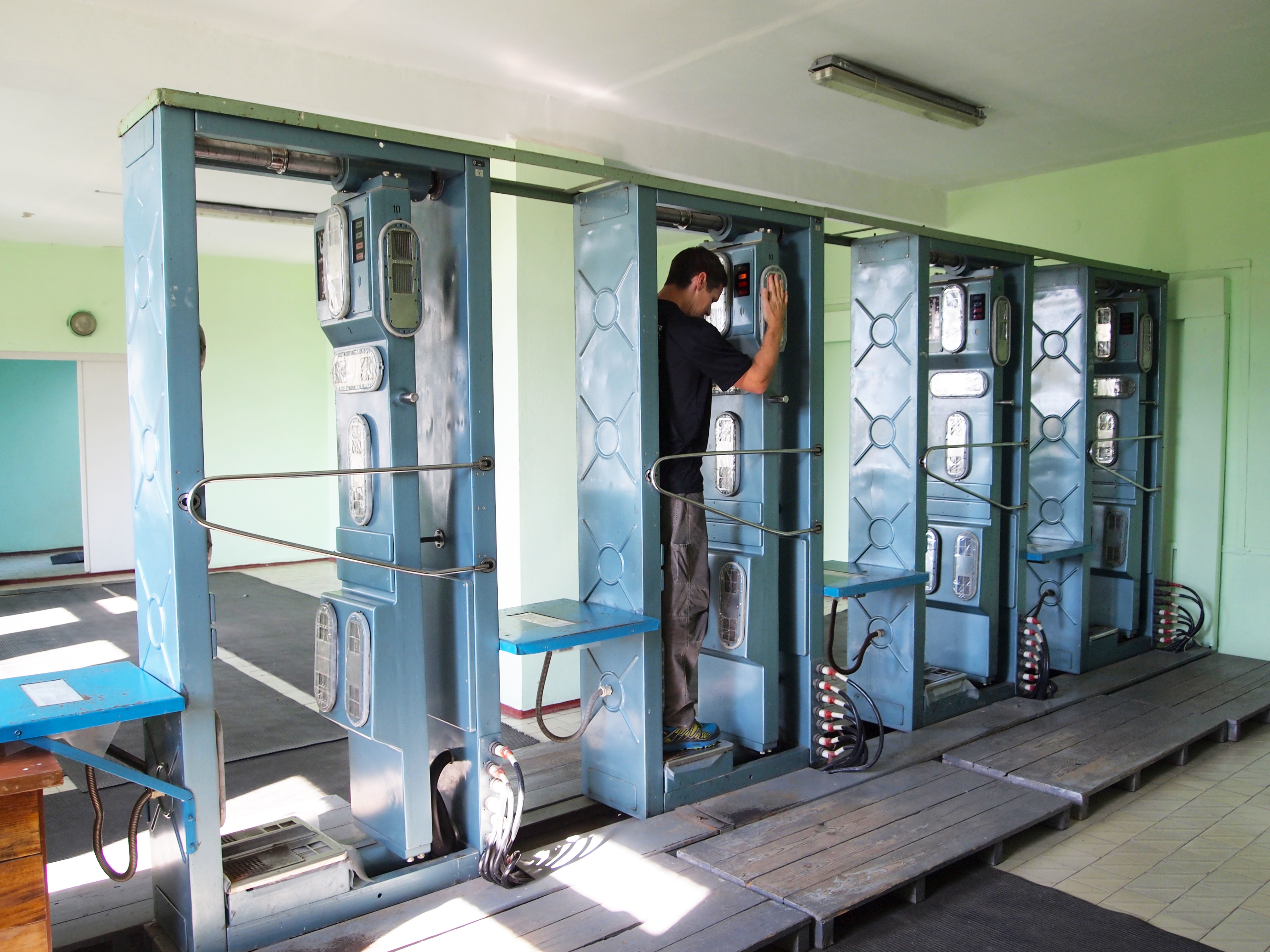 Body radiation detector in Chernobyl Exclusion Zone, Ukraine. This photograph was taken with a Olympus E-PL1.